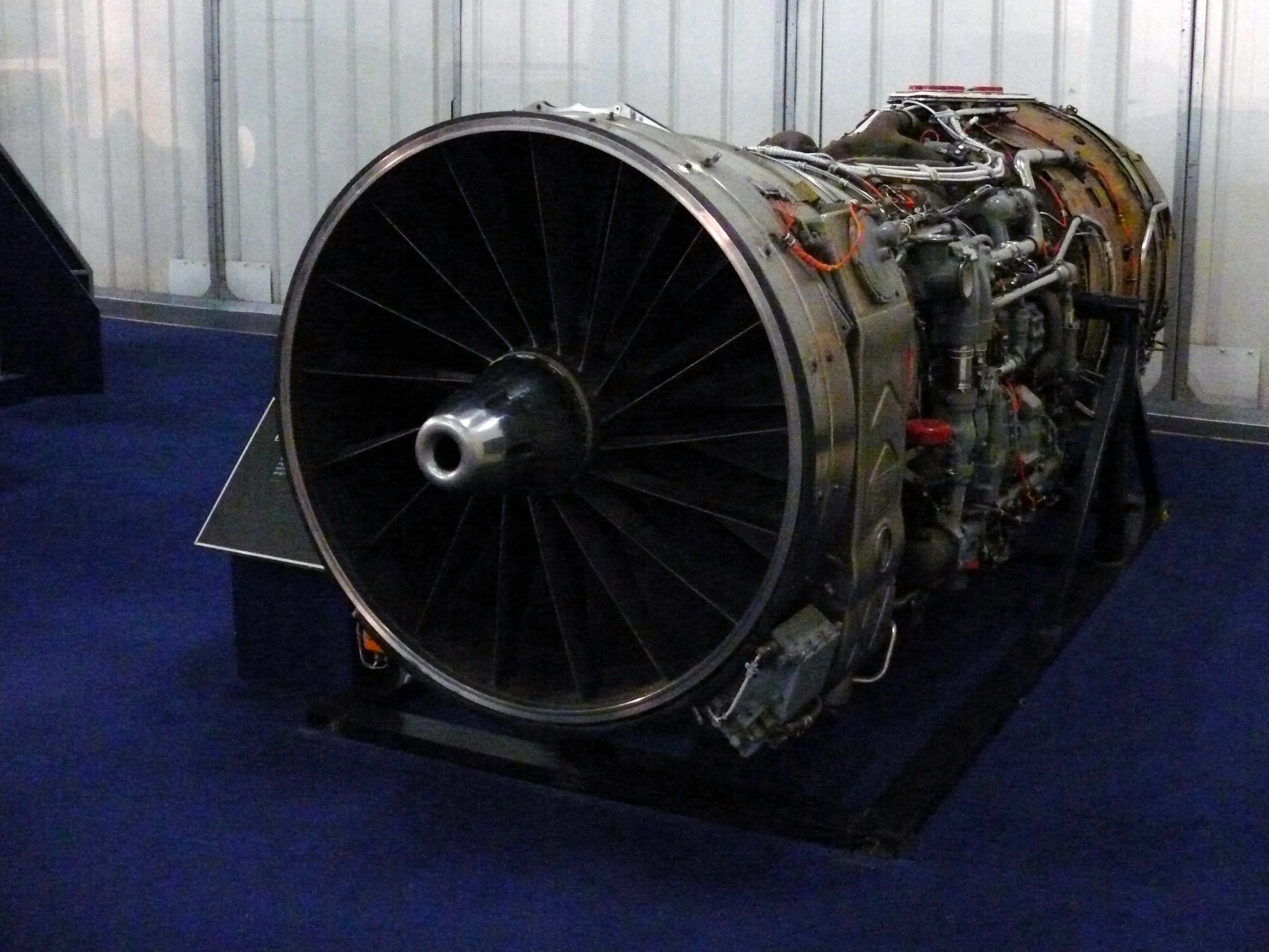 Prototype of the Rolls-Royce/Snecma Olympus 593 in the National Museum of Flight in East Fortune, East Lothian, Scotland. The Rolls-Royce/Snecma Olympus 593 was a reheated (afterburning) turbojet which powered the supersonic airliner Concorde.